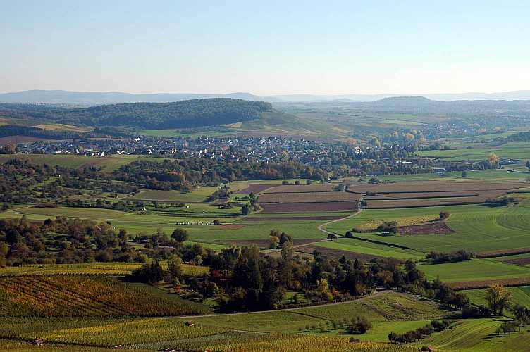 View at Großbottwar from the Wunnenstein.